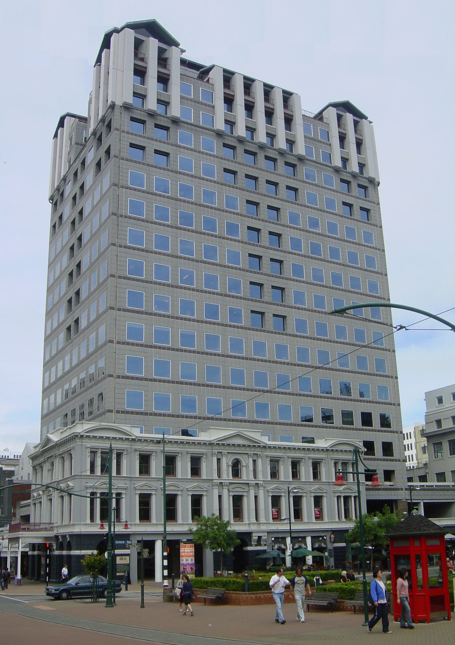 A rare example in architecture of the new nestling in the old. Although it received damage in both the recent earthquakes, the 17-storey building is still intact. After the September 2010, quake 50 people were evacuated from the tower because a crack was found in the eighth floor. After the February 2011 quake a stairwell collapsed and at least 30 people were trapped for a while. The damage is now being assessed but, even if the it's reopened, at least one of the firms that used the building has declared that they will not be returning there. There is a general feeling that there should be no more tower blocks built in Christchurch.